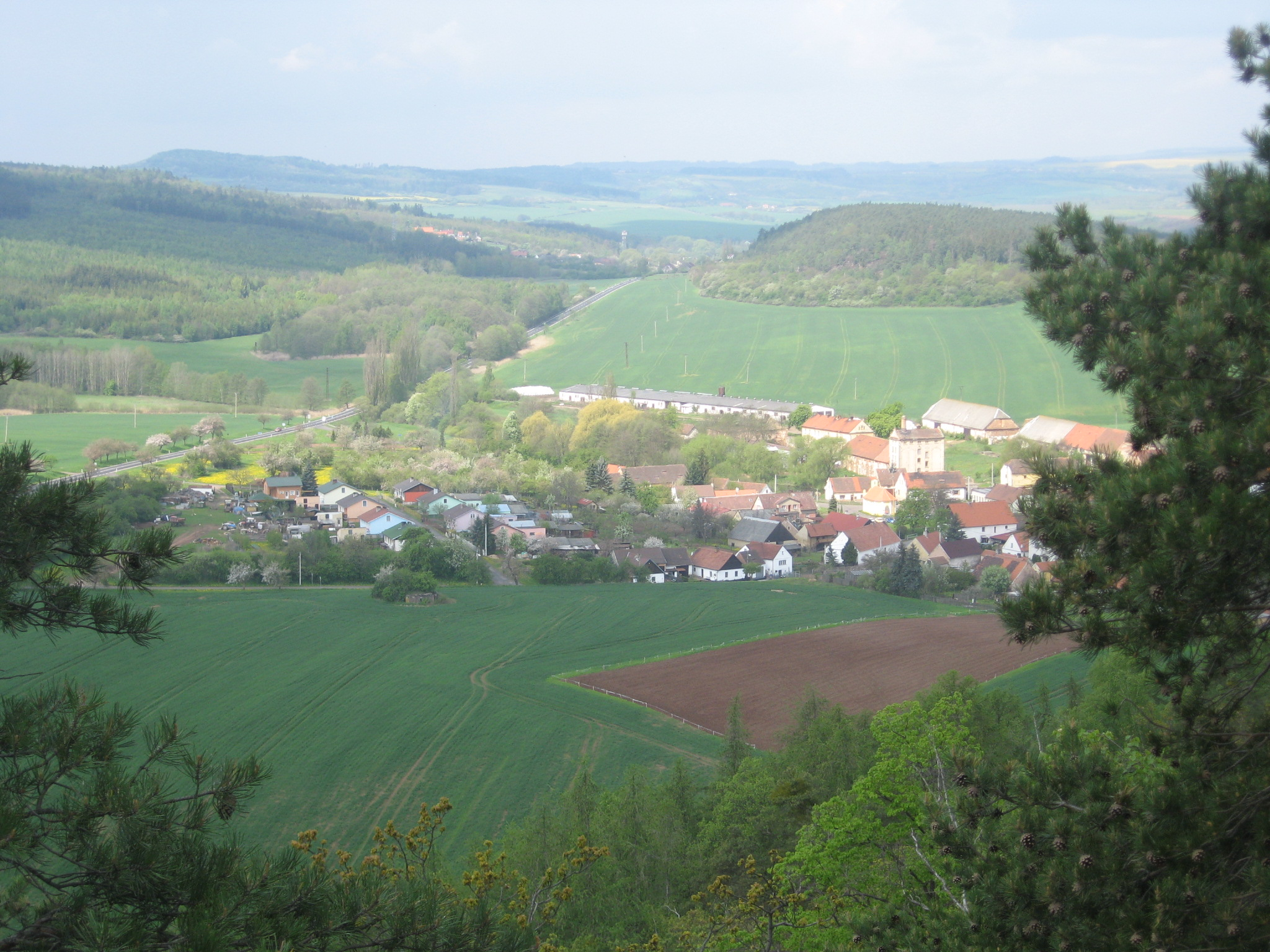 Ležky - total view